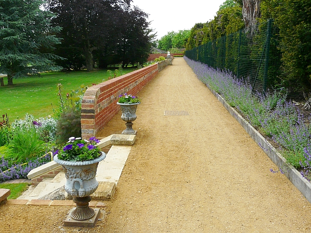 A path between the riverside lawn (left) and the allotments. The lawn has some fine old trees. Behind the fence on the right is a yew hedge, over 250 years old.